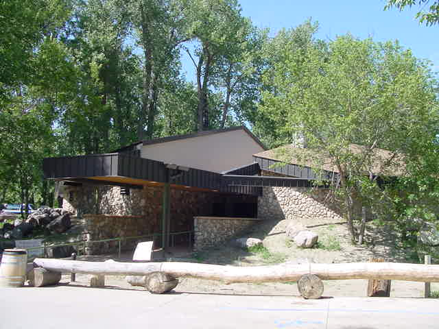 Headwaters Visitor Center at the reconstruction of Fort Mandan